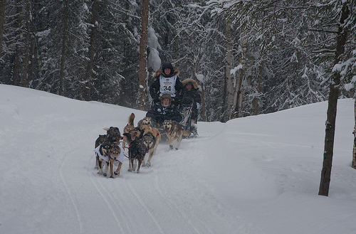 Photo taken in Anchorage, Alaska during the ceremonial start of the 2012 Iditarod Trail Sled Dog race.